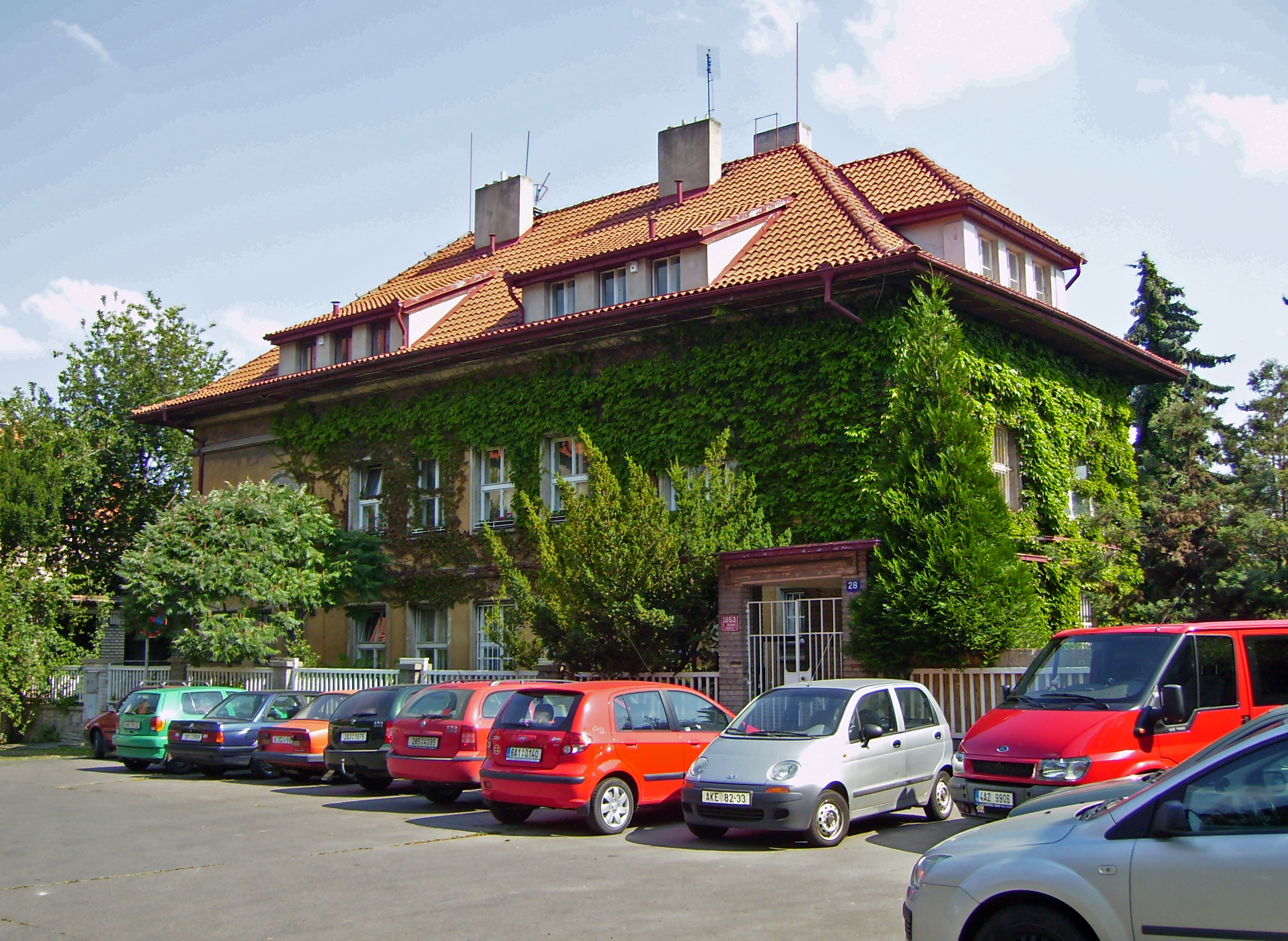 Prague 10-Vinohrady, Bratří Čapků street, house of Karel and Josef Čapek.